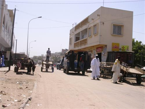 Thiaroye, Senegal 2003